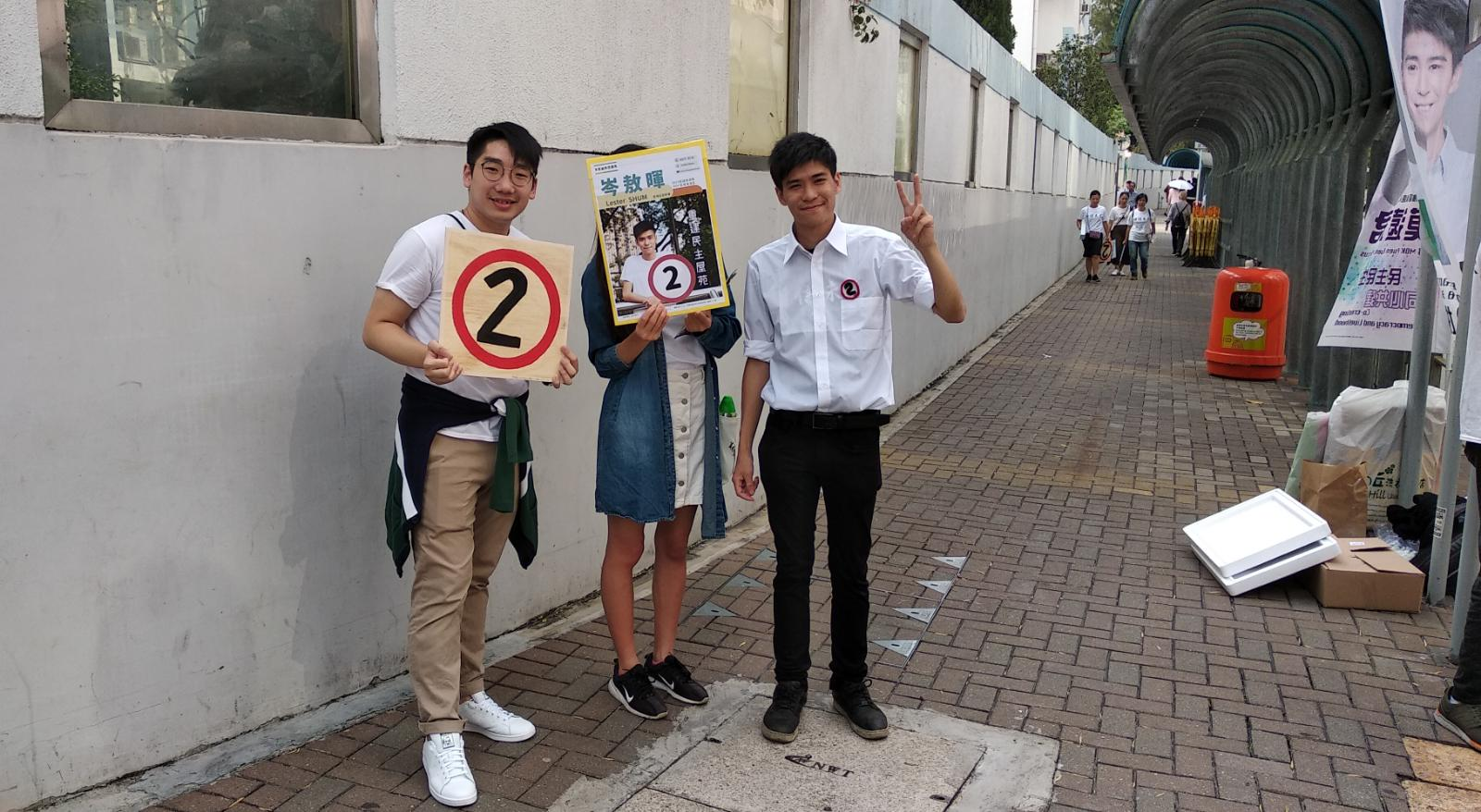 District Council Election Campaign of Lester Shum.